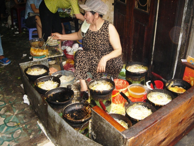 A restaurant in Hanoi which is specialized in Banh Xeo, one of the traditional and popular cuisines in Vietnam, Hanoi.